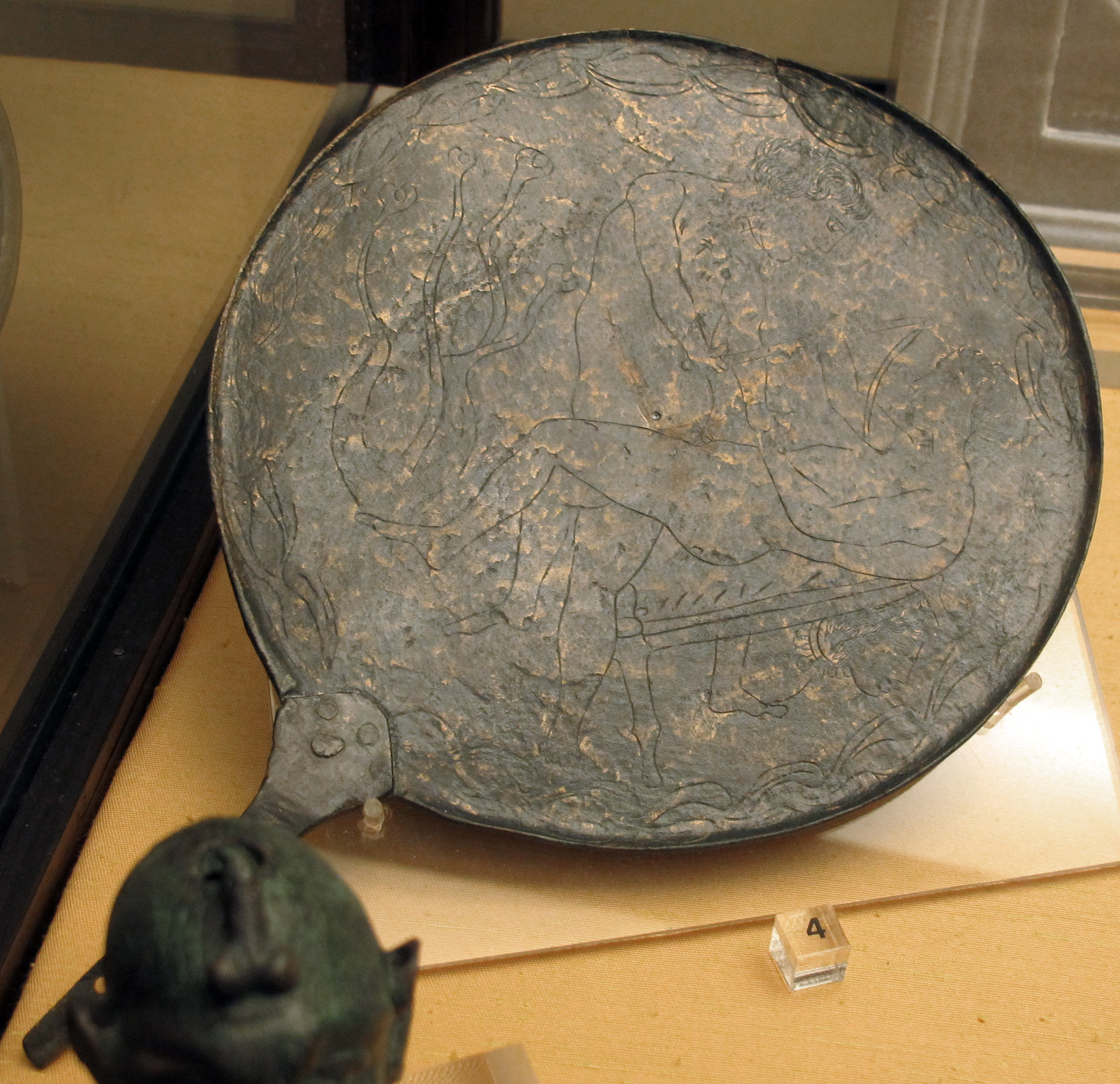 Secret Cabinet in the Museo Archeologico (Naples)